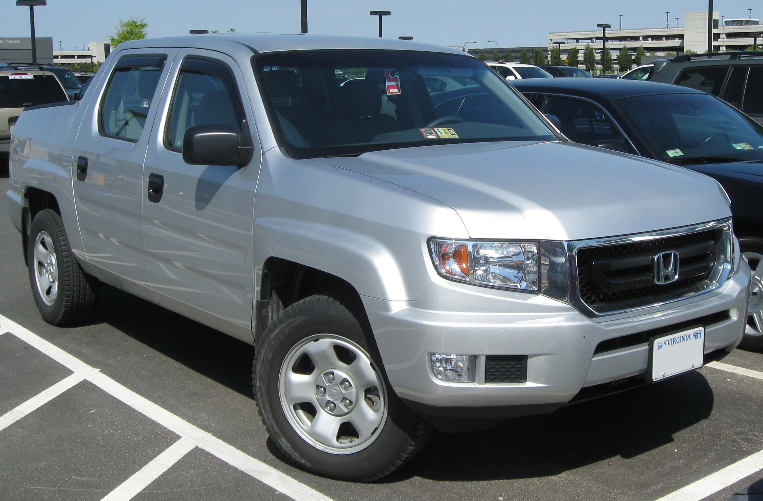 2009 Honda Ridgeline photographed in Sterling, Virginia, USA.